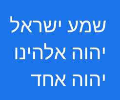 The first verse of the Hebrew prayer "Shema Yisrael" (the central prayer of Judaism) is a haiku (a three line poem whose first and third lines have five syllables each while the middle line has seven) and transliterates as: Shema YisraelAdonai elohainuAdonai ekhod